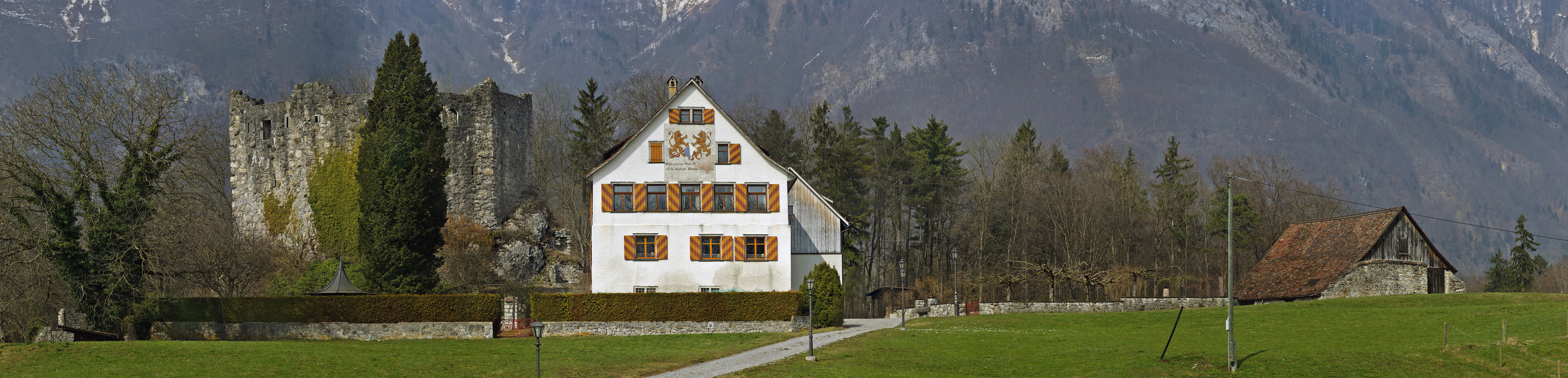 With 112 panoramic pictures (4 rows A 28 vertical images) to hide Sax Forstegg the Barons of Sax in Salez in the municipality of Sennwald in the Rhine Valley. The rule-Sax Forstegg was a historical territory in the St. Gallen Rhine Valley, from 14 Century until 1798 existed. The name derives from the Barons of Sax and the castle Forstegg ago. It included the present-day community Sennwald and hamlets of the commune Altstätten Lienz.